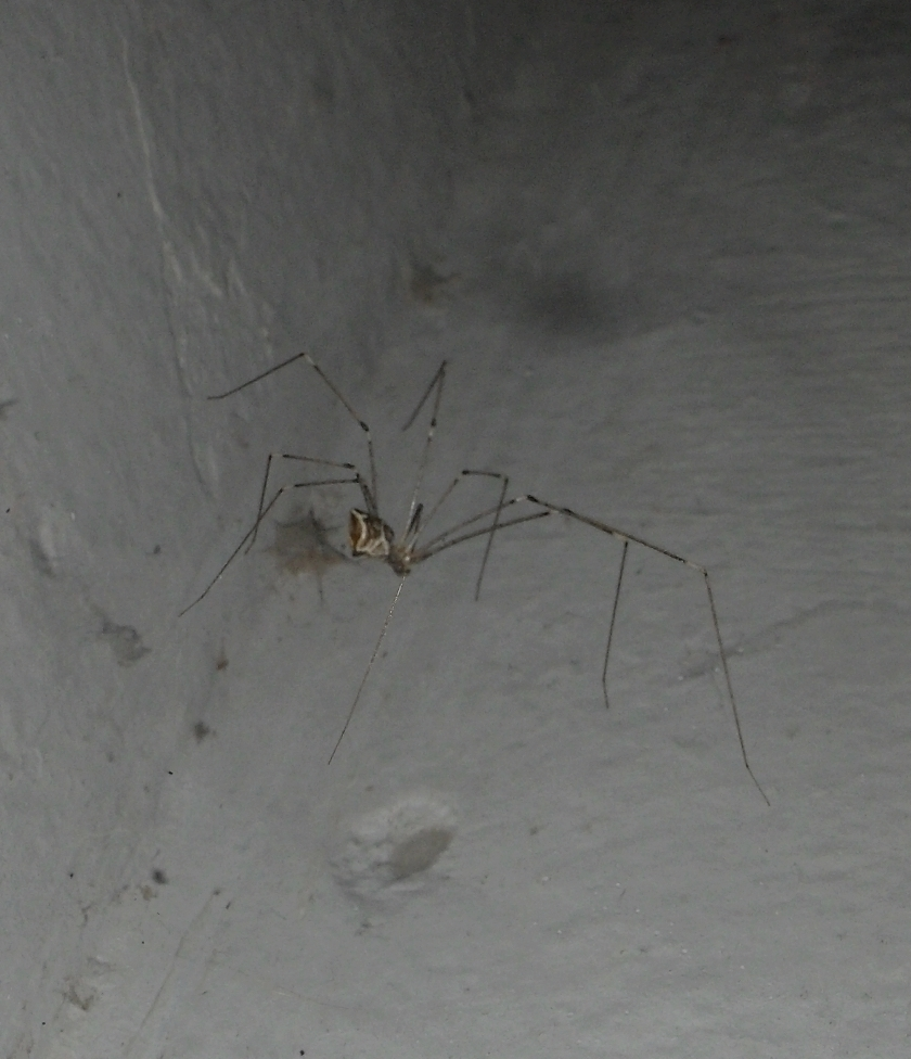 A tailed cellar spider (Crossopriza lyoni). This spider is commonly found in houses in Tamil Nadu, India. It never harms humans, but eats unwanted insects.